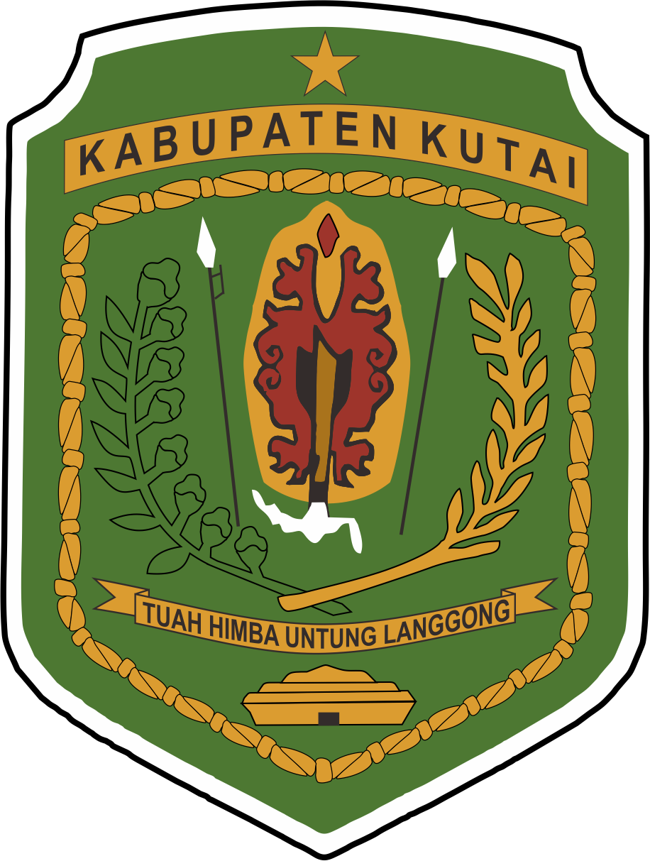 Former Logo of Kutai Regency